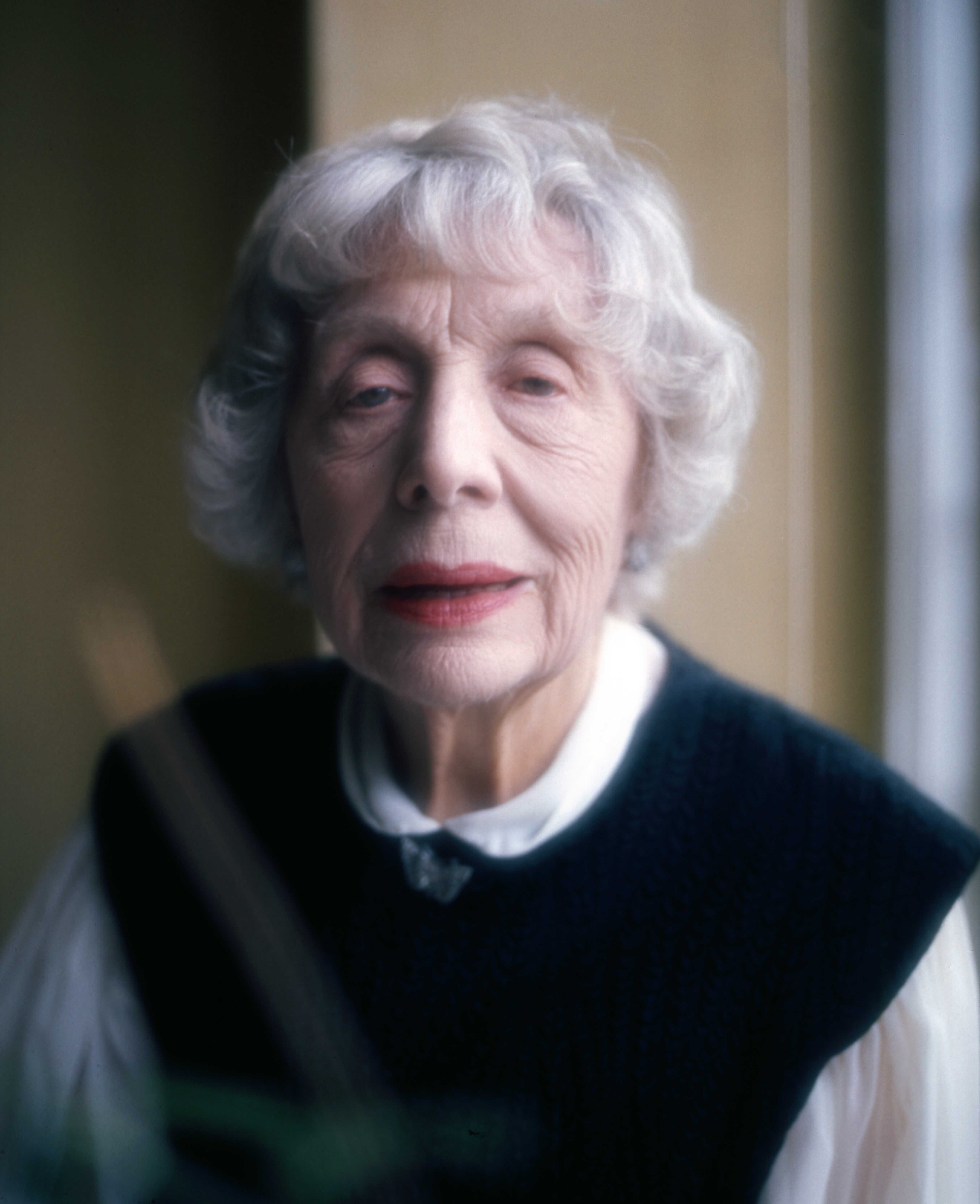 Dame Edith Evans taken at her home in Goudhurst Sussex England